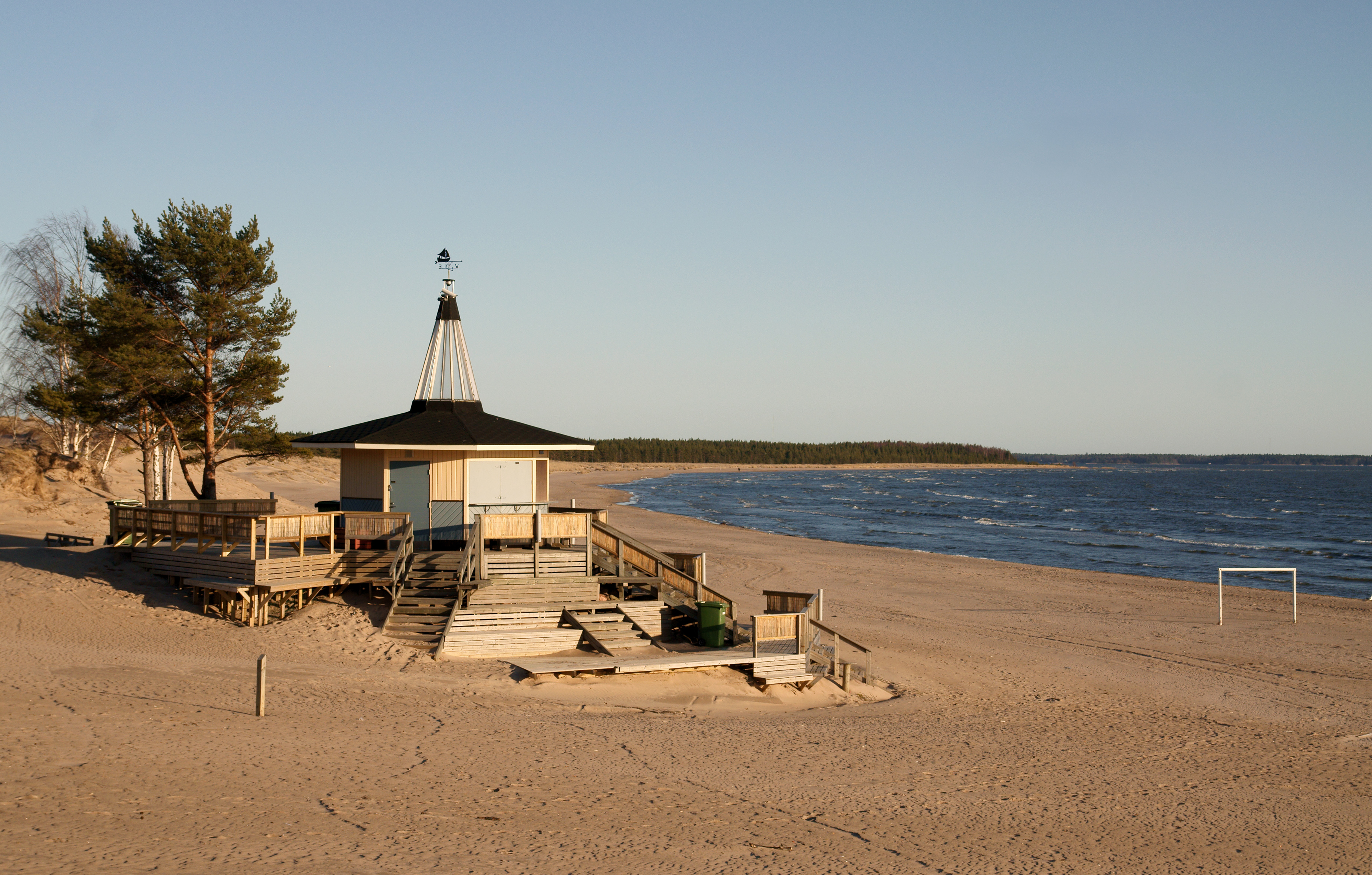 Bikini bar in Yyteri beach.